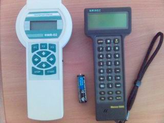 photo by MikeKn full free